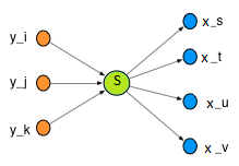 This image shows the in-degree of the node 'S' marked by nodes 'y', and the out-degree as nodes 'x'.